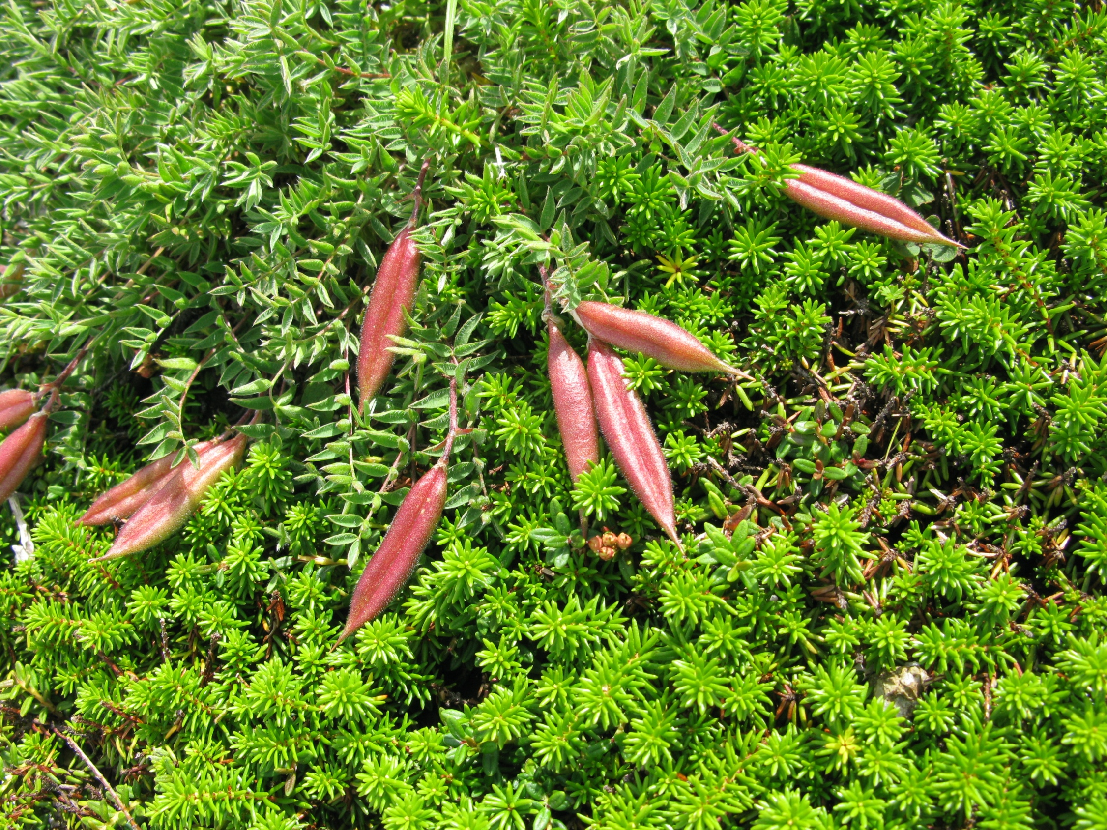 Oxytropis japonica var. japonica, Mt. Iidesan, Fukushima pref., Japan